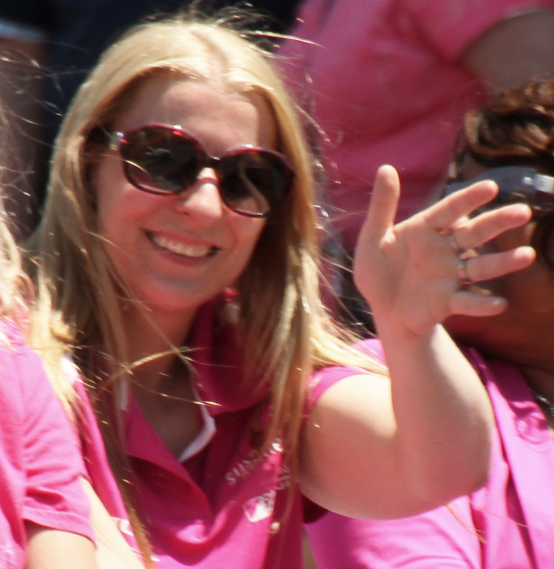 Pippa Mann at the 2015 500 Festival Parade in Indianapolis, Indiana